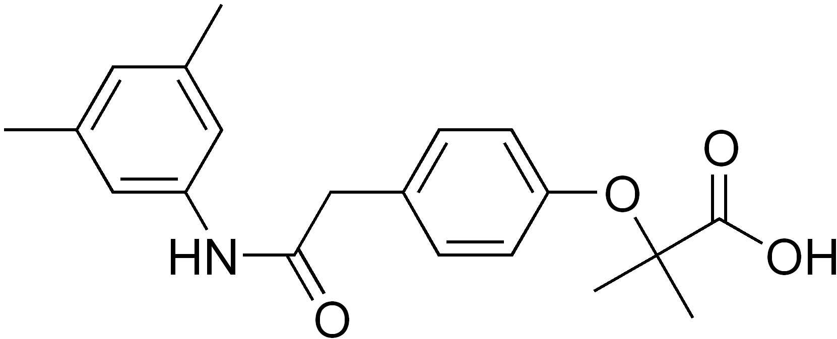 chemical structure of Efaproxiral